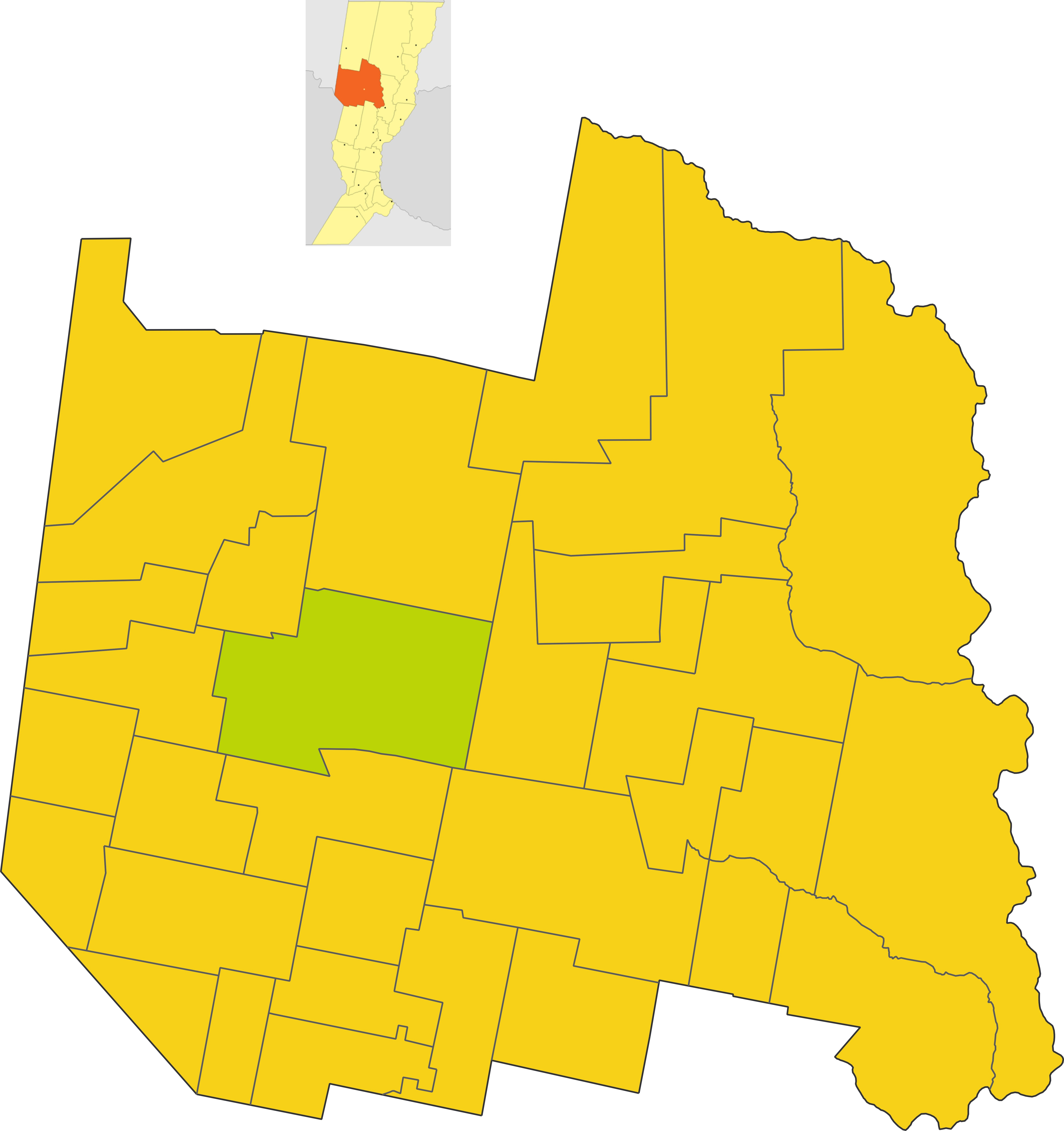 Map of the comuna de Arrufo in San Cristobal department, Santa fe province, Argentina